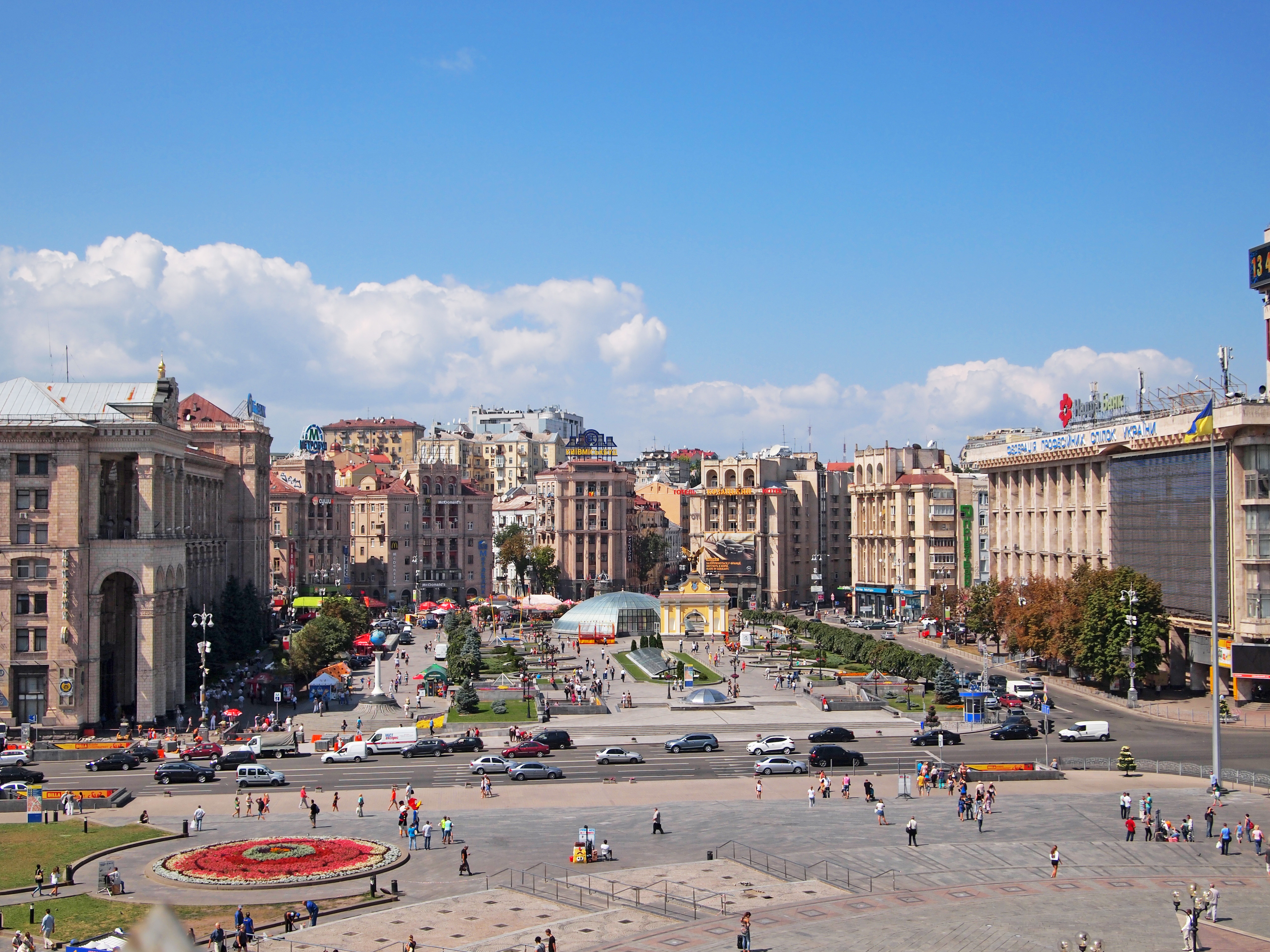 Maidan Nezalezhnosti square in Kiev. This photograph was taken with a Olympus E-PL1.